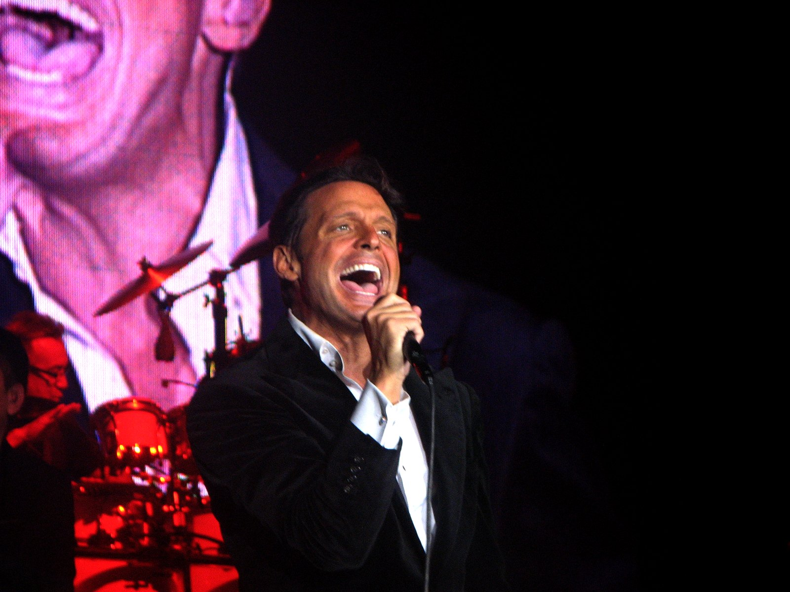 Luis Miguel during his Complices Tour in 2008.